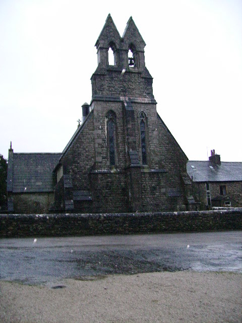 Roman Catholic church of St Mary, Yealand Conyers, Lancashire, seen from the west